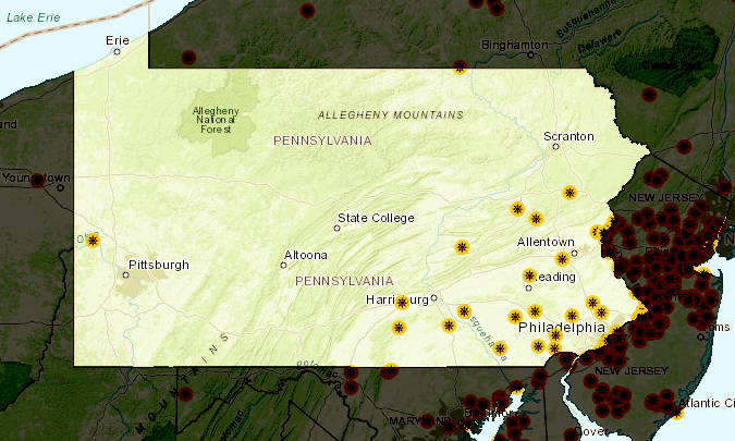 This is part of the U.S. federal government, so it is in the public domain.